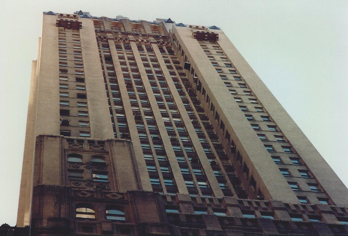 Software development firm DDC-I had a New York engineering office from 1991 to 1993 on the 31st floor of this building at 295 Madison Avenue.